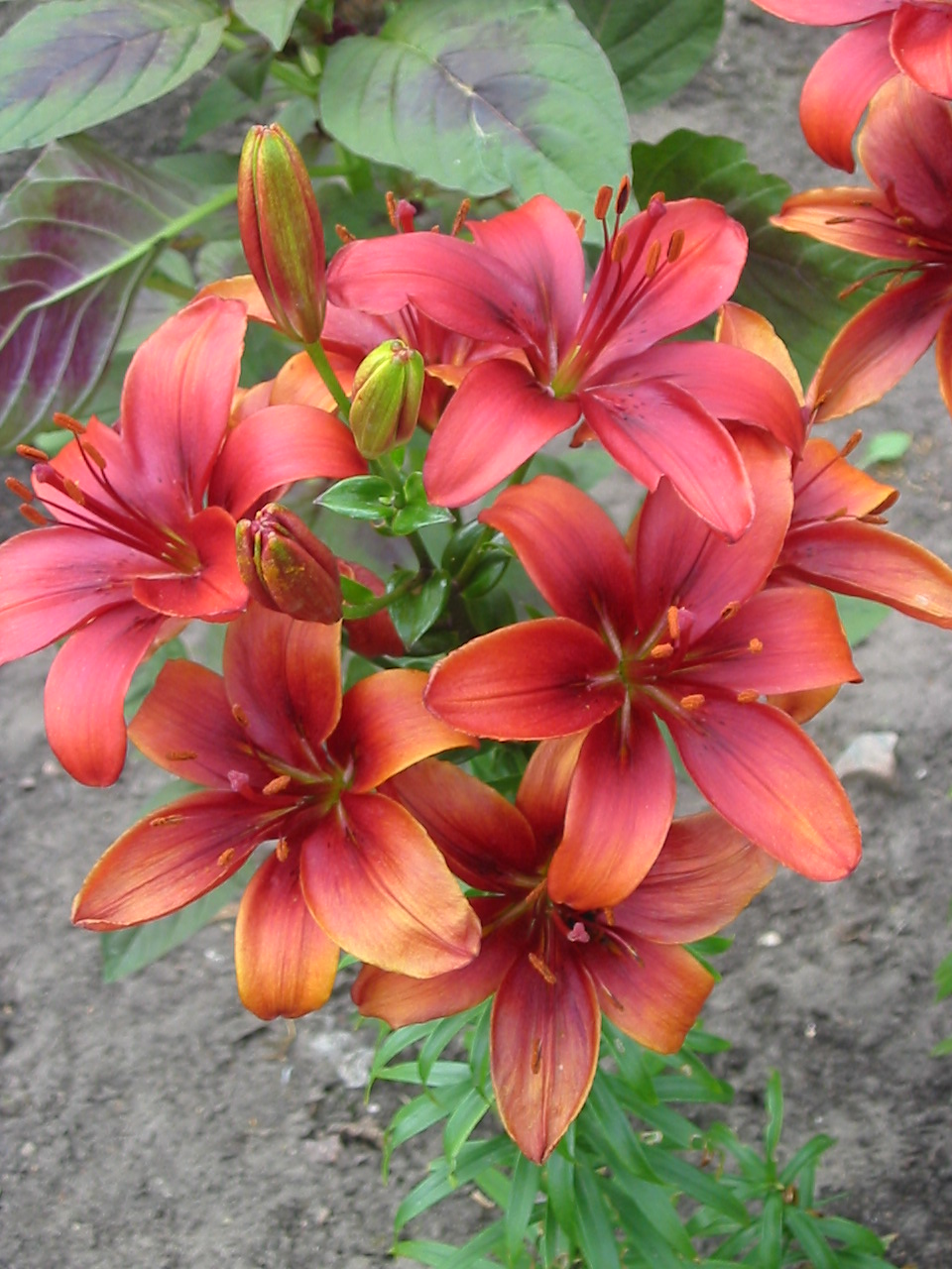 Lilium from a russian botanic garden